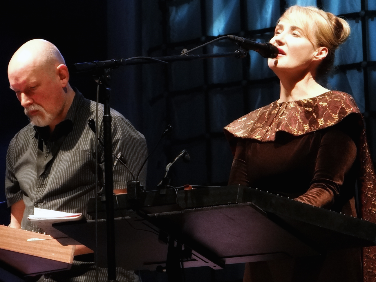 Dead Can Dance in Vienna, Virginia.